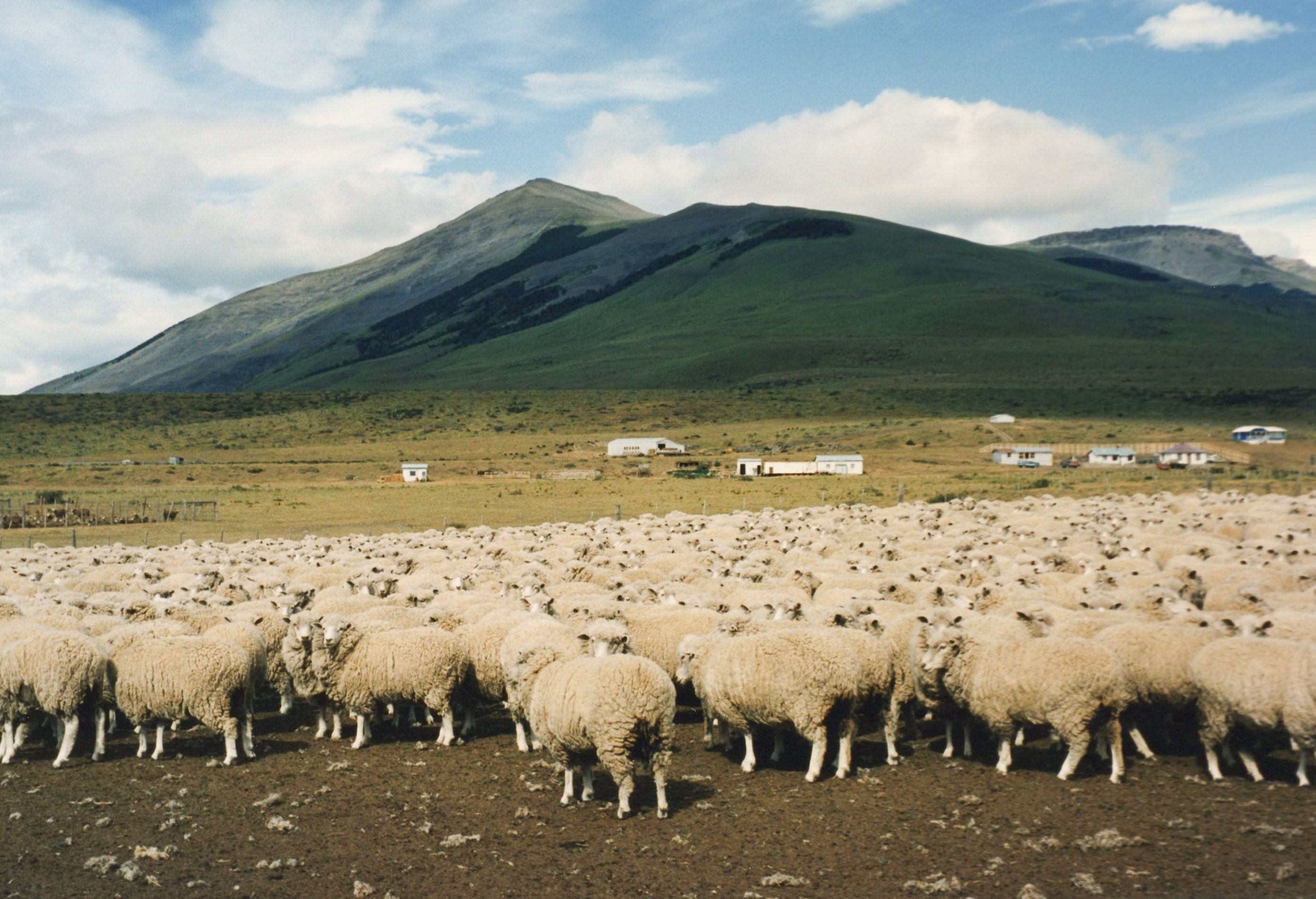 Sheep in Torres del Paine National Park, Chile